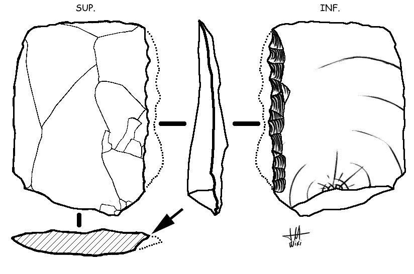 Inverse removals for retouch